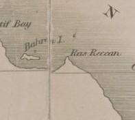 'General Map of Persia' from James Silk Buckingham's 1829 book, 'Travels in Assyria, Media, and Persia, including a journey from Bagdad by Mount Zagros, to Hamadan, the ancient Ecbatana, researches in Ispahan and the ruins of Persepolis, and journey from thence by Shiraz and Shapoor to the sea-shore. Description of Bussorah, Bushire, Bahrein, Ormuz, and Muscat, narrative of an expedition against the pirates of the Persian Gulf, with illustrations of the voyage of Nearchus, and passage by the Arabian Sea to Bombay'.